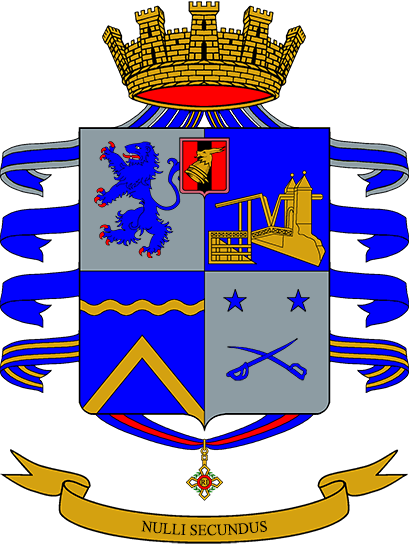 Coat of Arms of the 2° Bersaglieri Regiment; Italian Army.